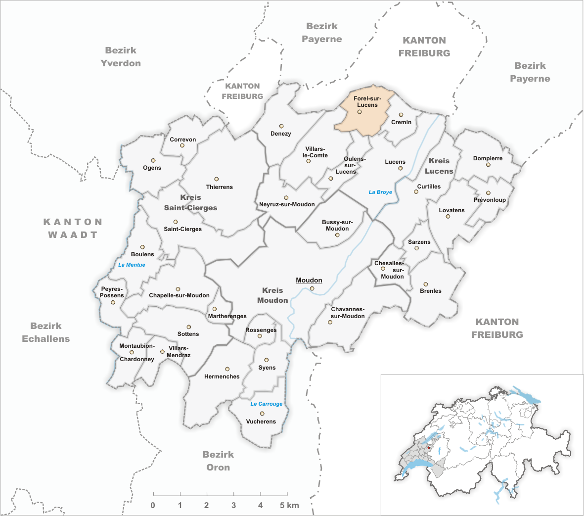 Municipality Forel-sur-Lucens